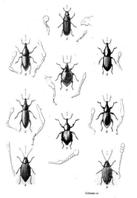 Plate to illustrate the work of Thomas Vernon Wollaston, the biologist (entomologist)